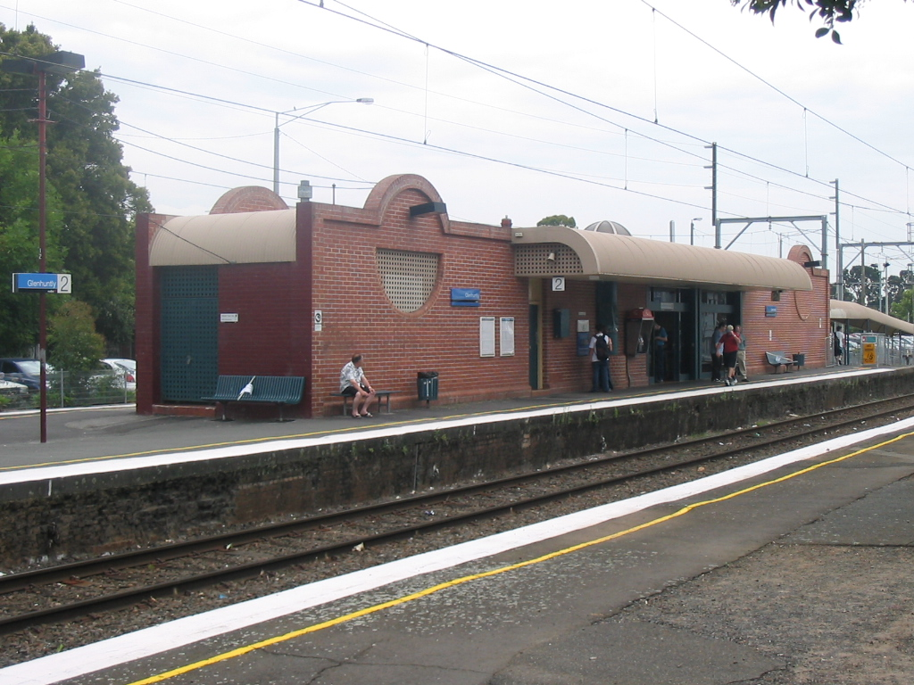 Station building on Platforms 1 and 2. Picture taken by myself.